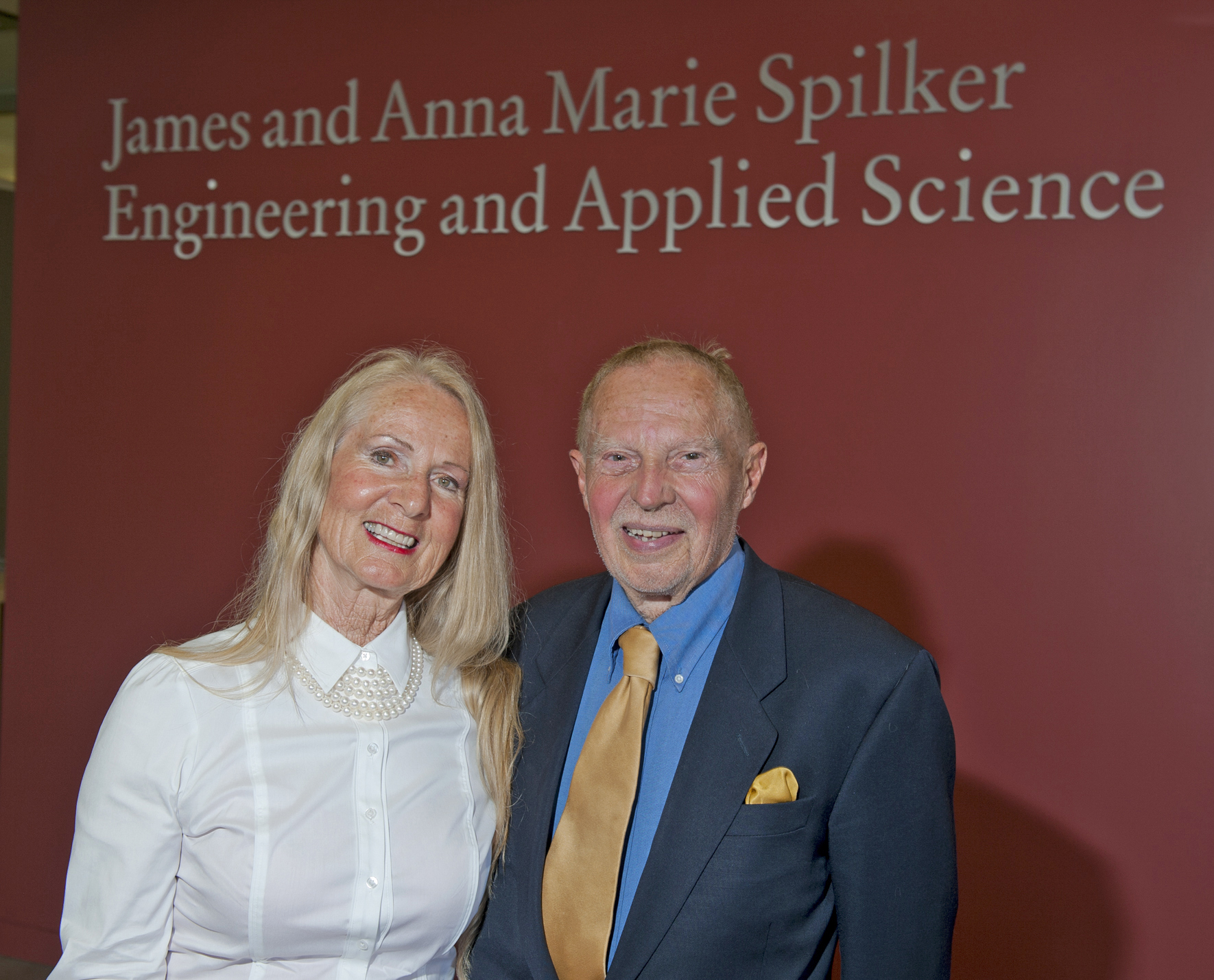 James and Anna Marie Spilker at the dedication ceremony for the James and Anna Marie Spilker Engineering and Applied Science Building at Stanford